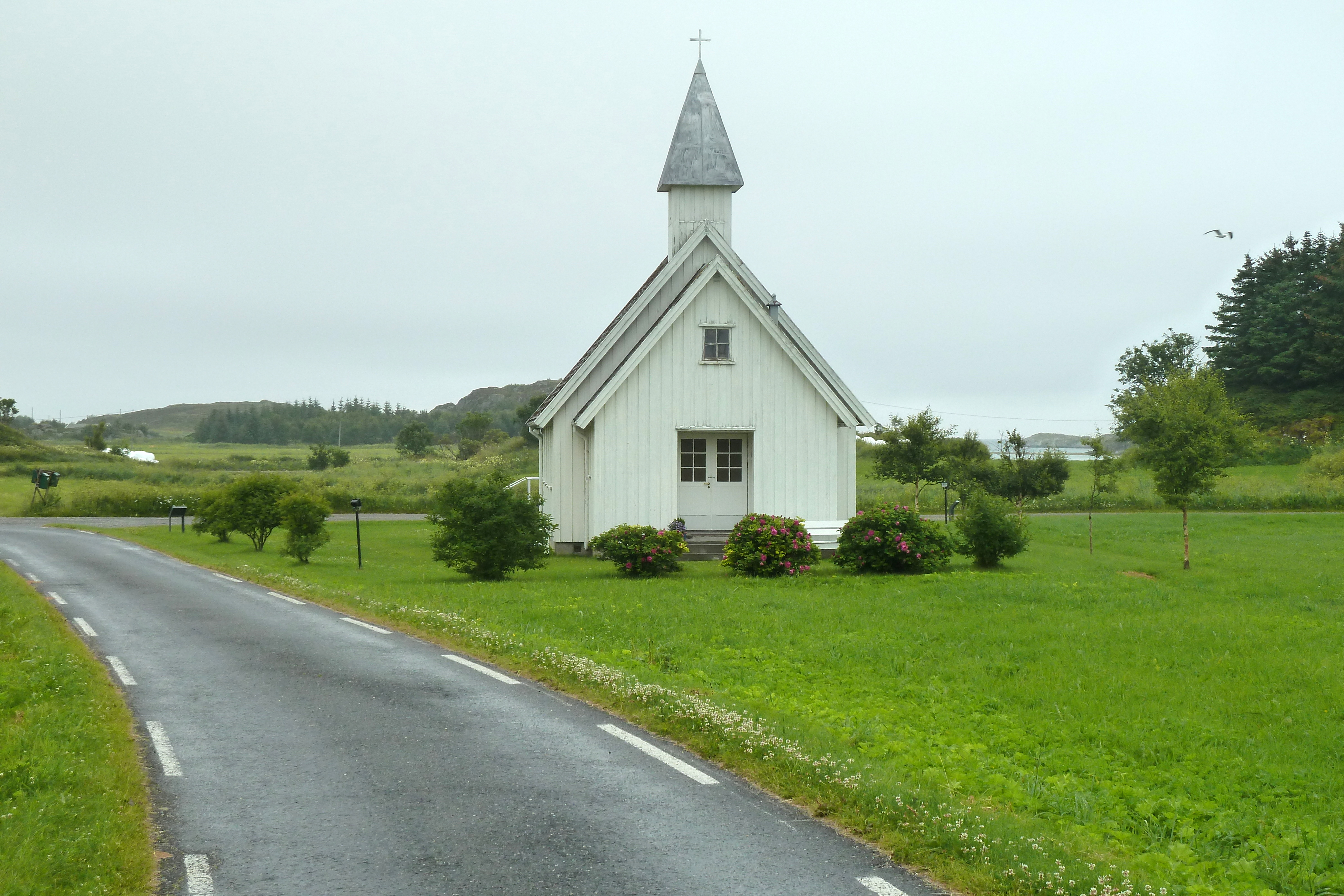 Ylvingen chapel at the island Ylvingen in Vega, Nordland. Bulit in 1967.